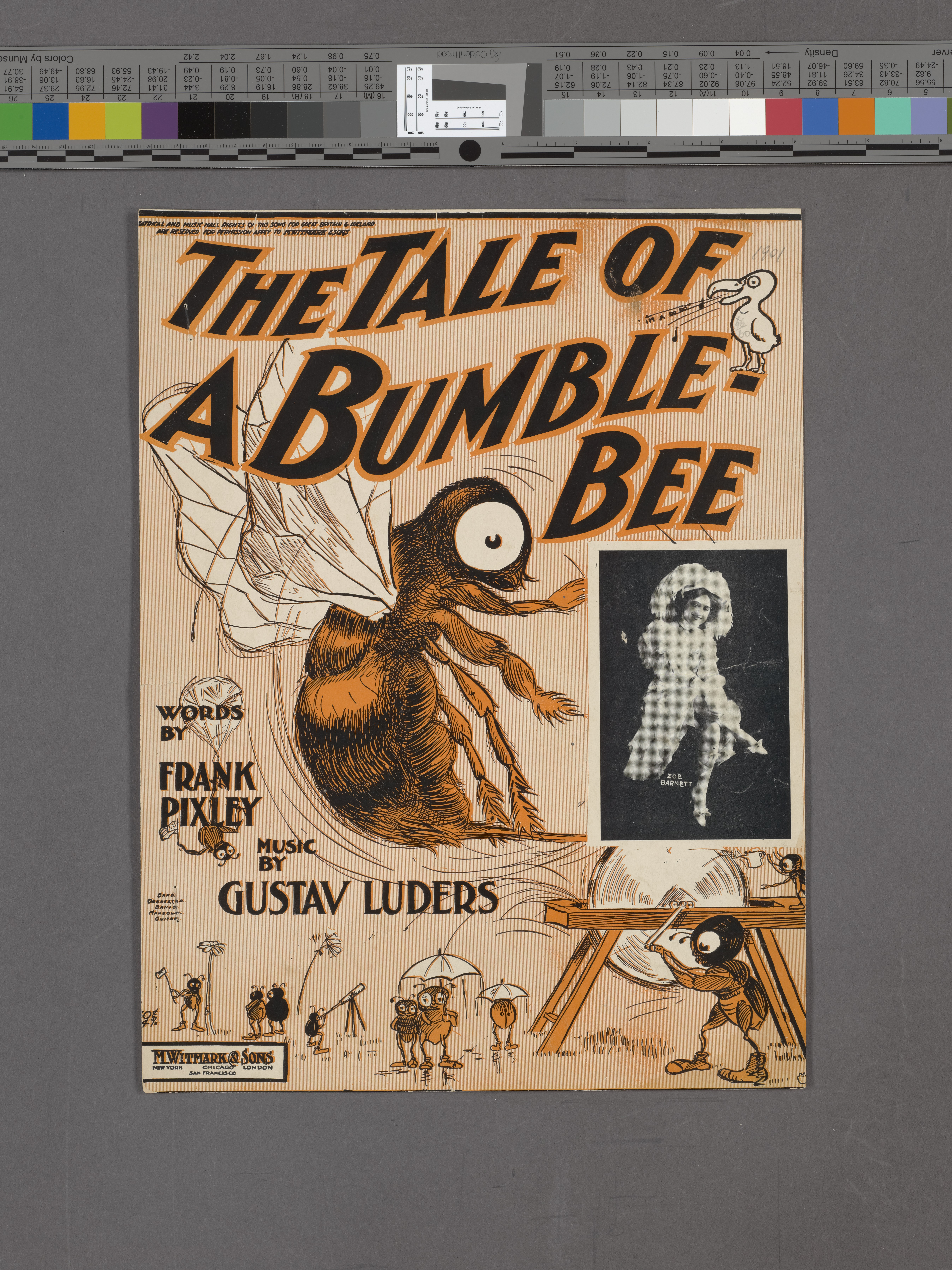 On cover: Photograph of Zoe Barnett. On cover: A bee sharpening its stinger. [illustration] Statement of responsibility : words by Frank Pixley ; music by Gustav Luders.